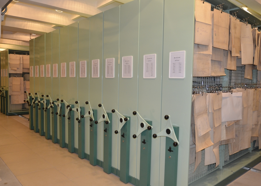 Картохранилище в Государственном архиве Пермского края